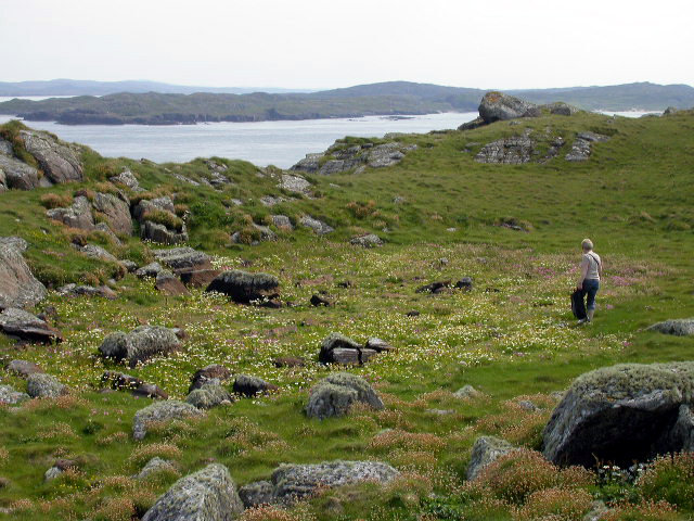 Berisay, 4 km from Bostadh, Na h-Eileanan an Iar, Great Britain. Lush vegetation and rocky outcrops on the flat top of the island of Berisay, which in the early 17th century supported a band of outlaws led by Neil Macleod. The depression seen is believed to have been an artificial loch design to collect fresh water.